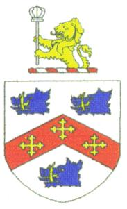 Coat of Arms of the MacDermot Roe family of Ireland. The motto of the MacDermots Roe of Alderford was "Honor Probataque Virtus". A branch of the MacDermots Roe in America has published the motto "Justice and Charity" reflecting the family's Biatach tradition. According to Burke's General Armory of England, Scotland, Ireland and Wales, 1884, the coat of arms of the MacDermot Roe and the MacDermots of Moylurg are similar.